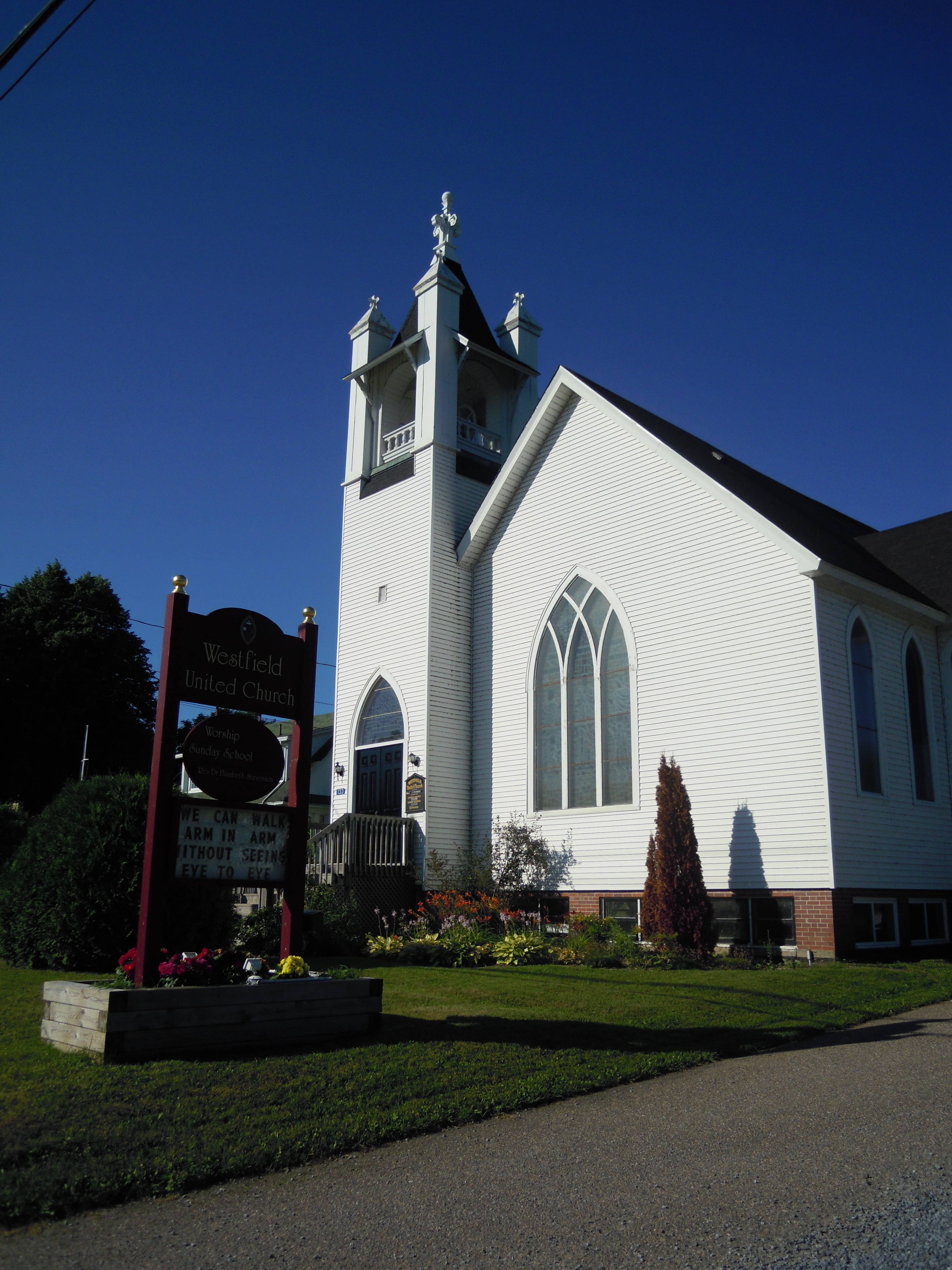 Westfield United Church on Nerepis Road, Grand Bay-Westfield, New Brunswick, Canada.